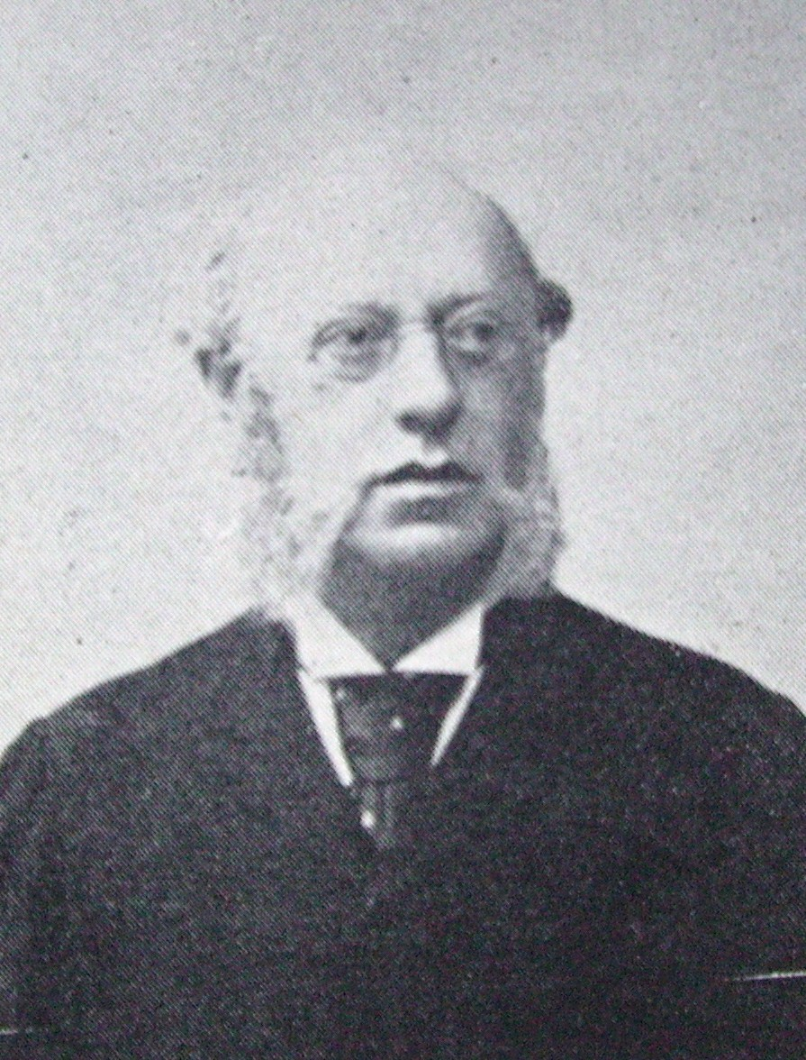 Picture of Wilhelm Röhss the younger, Swedish philantropist